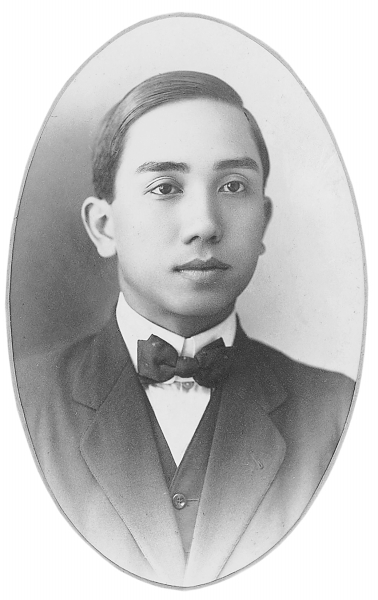 Lai Man-Wai (1893－1953)